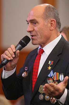 Magomed Tolboyev. Vladimir Putin met with his presidential election campaign activists (2012-12-10).